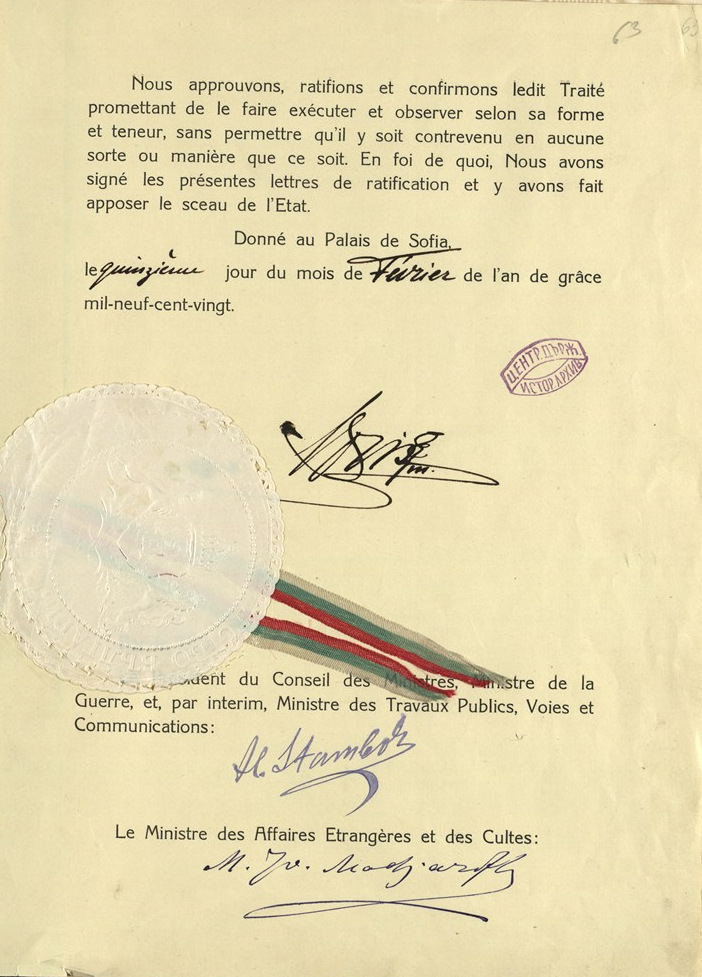 Ratification of the Treaty of Neuilly-sur-Seine.